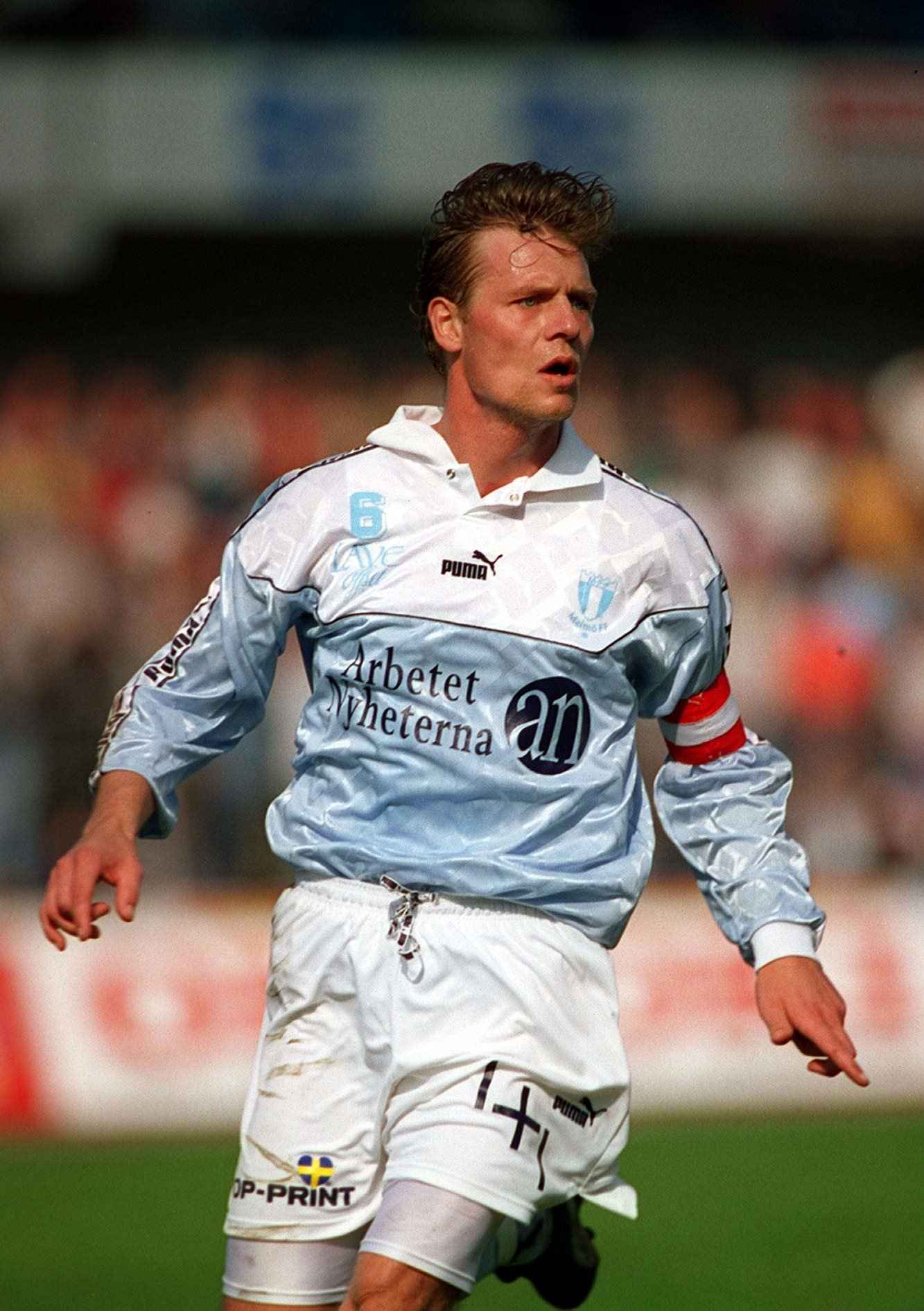 The footballplayer Niclas Nyhlén